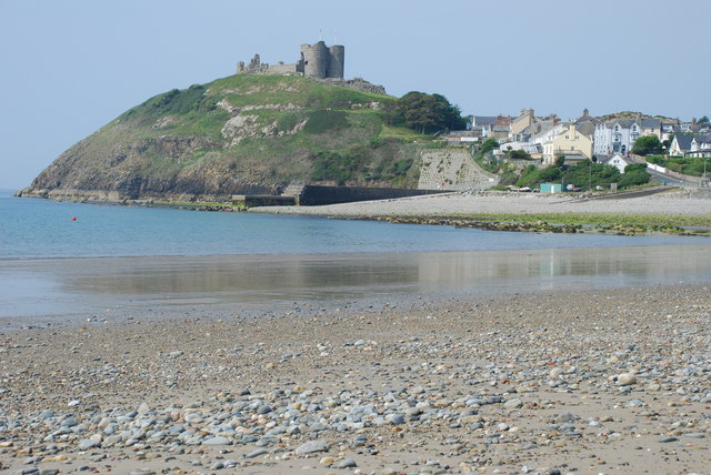 Llanw isel ar draeth Cricieth- Low tide on Criccieth beach